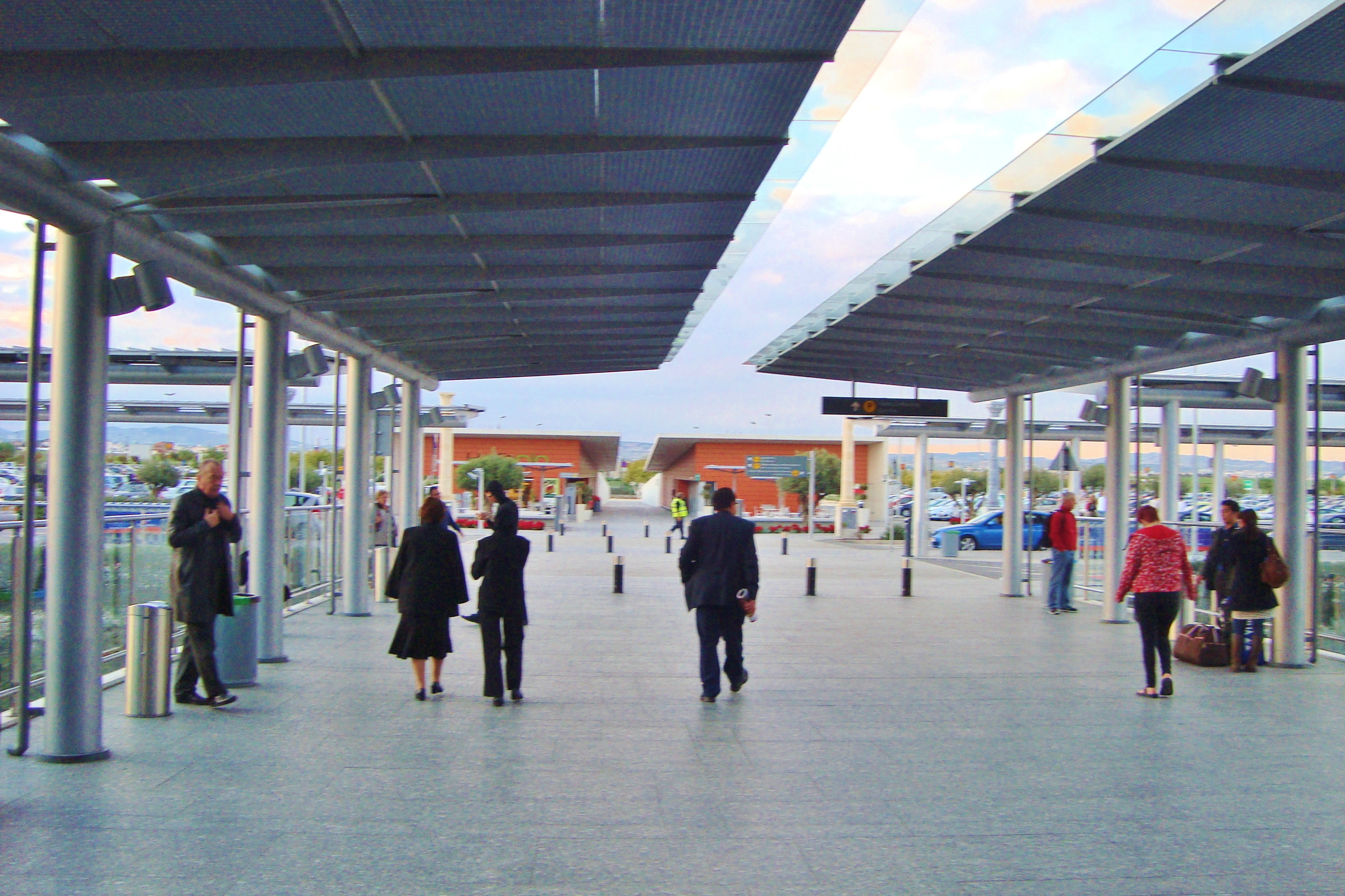 Larnaca International Airport Republic of Cyprus